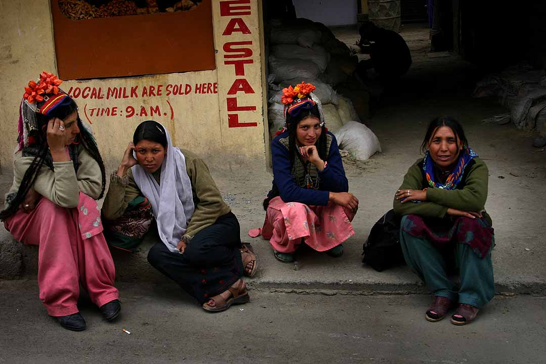 Brokpa women in local costume (Ladakh, Kashmir)